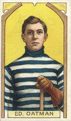 1911 Imperial Tobacco Co. C55 hockey card #5 of Quebec Bulldogs player Ed Oatman